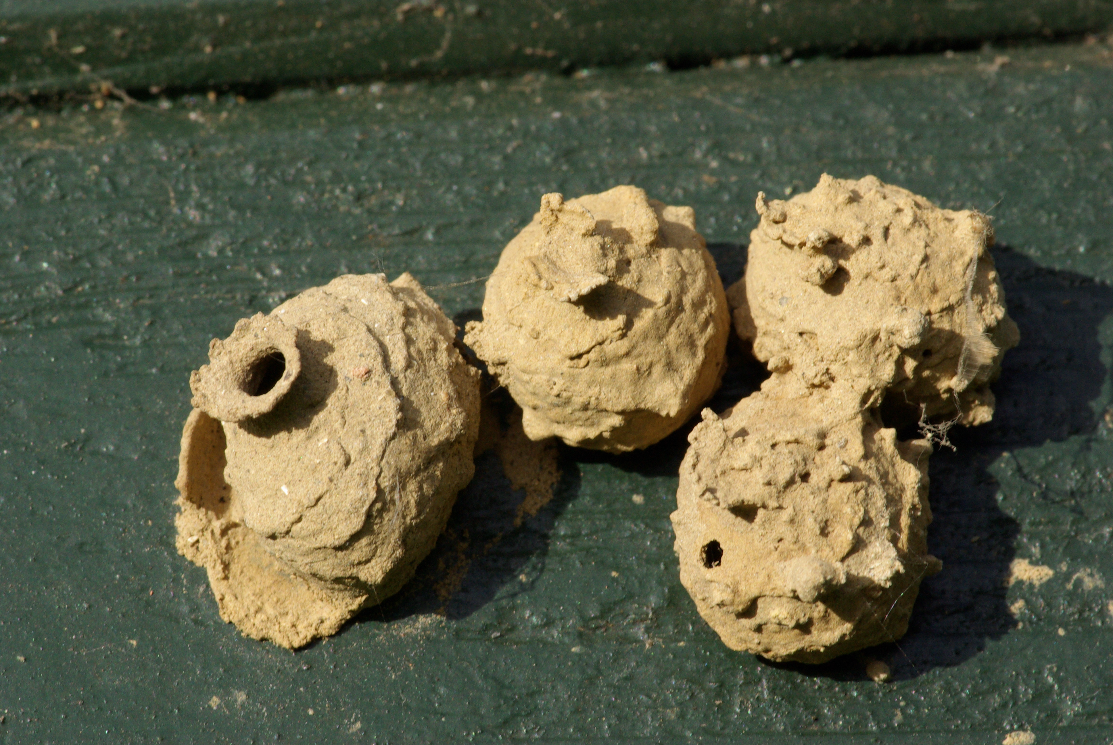 Some potters wasp nest was fixed behind a shutter (Normandie; France)